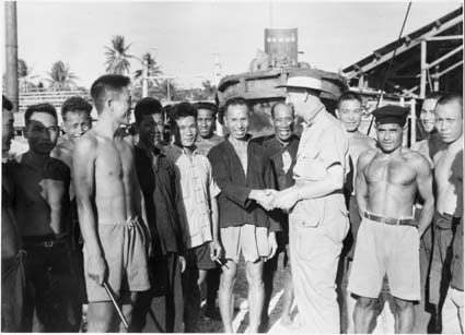 Chief Engineer of the British Phosphate Commission W V Bott, being greeted by Chinese residents of the Island on his arrival on the Island - Nauru